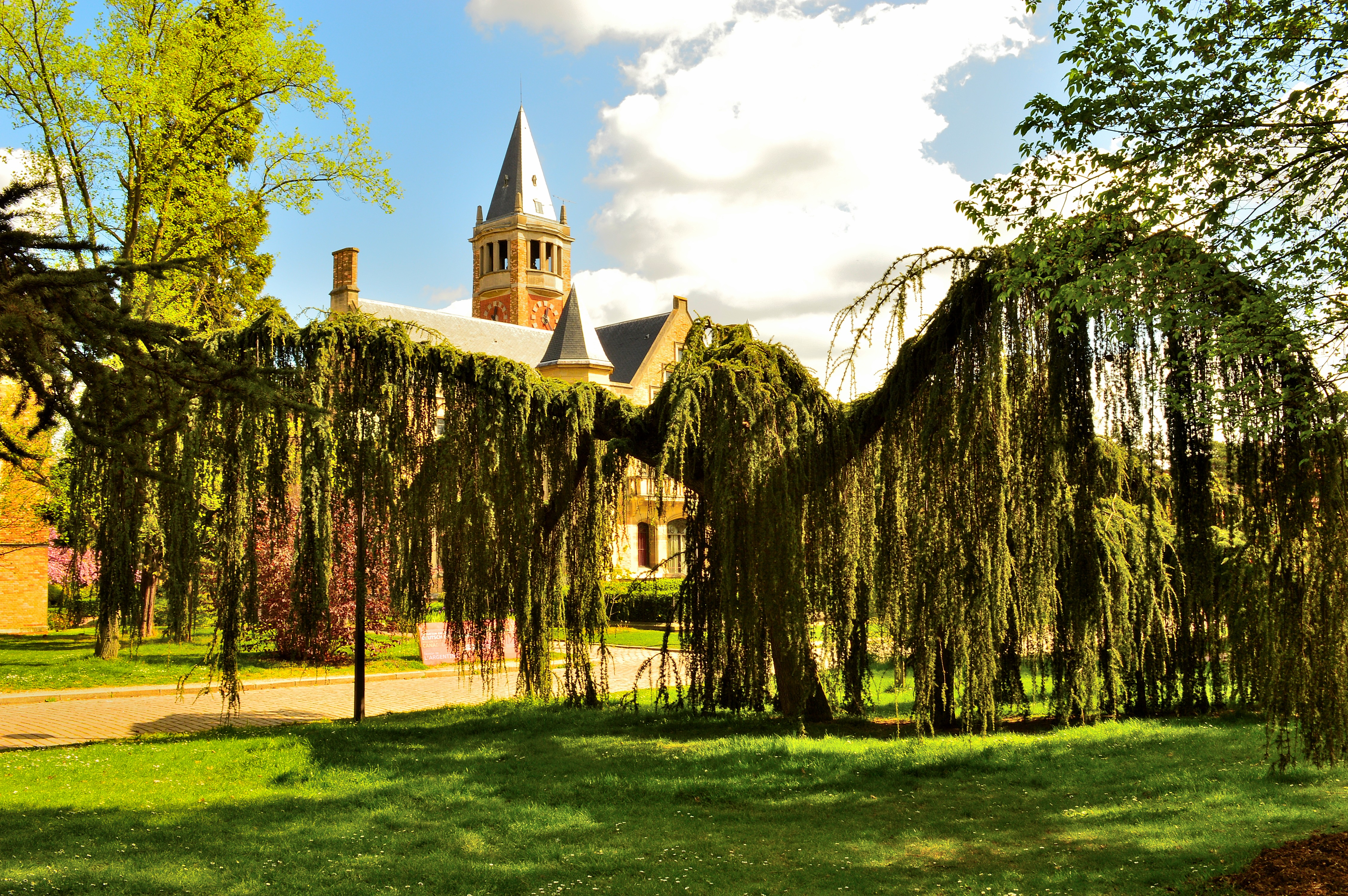 Found close to Fondation Deutsch de La Meurthe, this tree adds a unique charm to CIUP campus. When observed with the clock tower of Deutsch De la Meurthe, one would think that he lives in a different time, a time of magic and ultimate beauty.